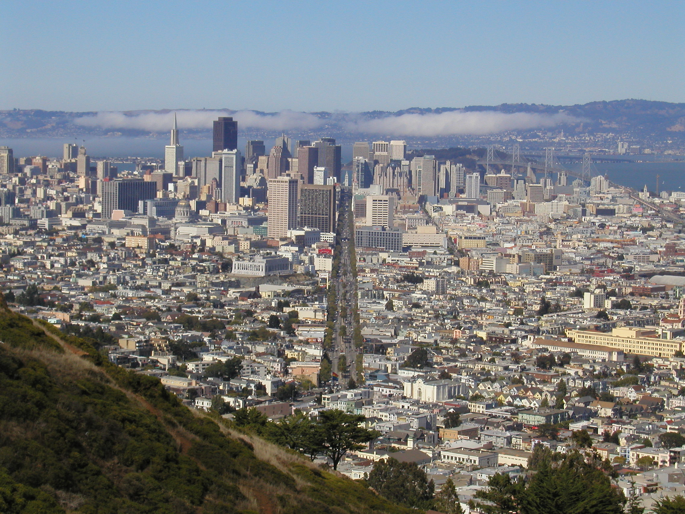 Market Street in San Francisco, view down from Twin Peaks